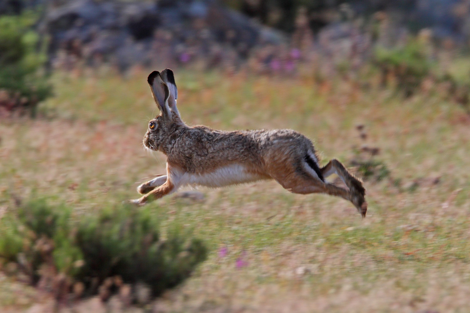 Jumping granada hare